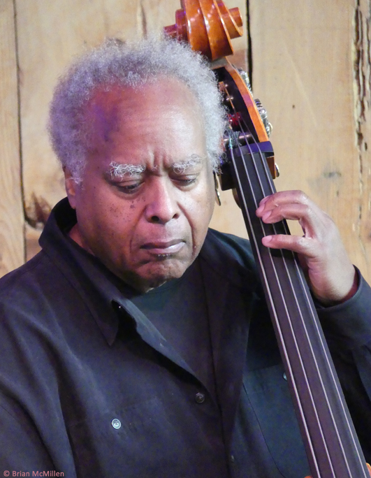 Ray Drummond at Bach Dancing & Dynamite Society, Half Moon Bay CA 7/8/17. Photo: Brian McMillen /